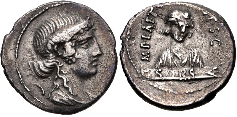 M. Plaetorius M.f. Cestianus. 57 BC. AR Denarius (18mm, 3.79 g). Rome mint. Draped bust of Fortuna right; uncertain symbol (rudder?) to left / Half-length bust of Sors facing, head slightly right, set on tablet. Crawford 405/2; Sydenham 802; Plaetoria 10. Note: Sors (as identified by the inscription) is on the right.